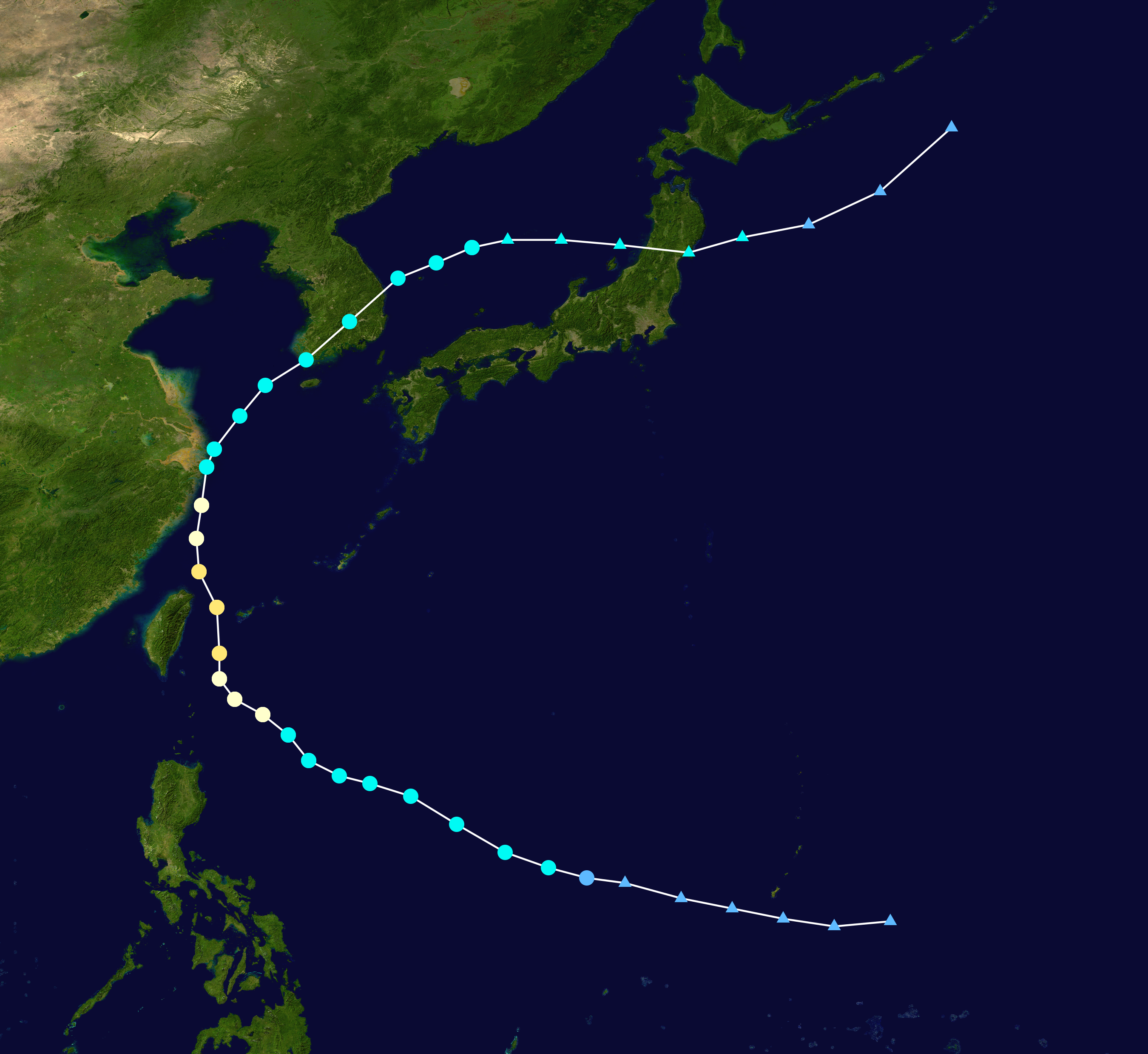 Track map of Typhoon Mitag of the 2019 Pacific typhoon season. The points show the location of the storm at 6-hour intervals. The colour represents the storm's maximum sustained wind speeds as classified in the Saffir–Simpson scale (see below), and the shape of the data points represent the nature of the storm, according to the legend below. Saffir–Simpson scale Tropical depression≤38 mph≤62 km/h Category 3111–129 mph178–208 km/h Tropical storm39–73 mph63–118 km/h Category 4130–156 mph209–251 km/h Category 174–95 mph119–153 km/h Category 5≥157 mph≥252 km/h Category 296–110 mph154–177 km/h Unknown Storm type Tropical cyclone Subtropical cyclone Extratropical cyclone / Remnant low / Tropical disturbance / Monsoon depression